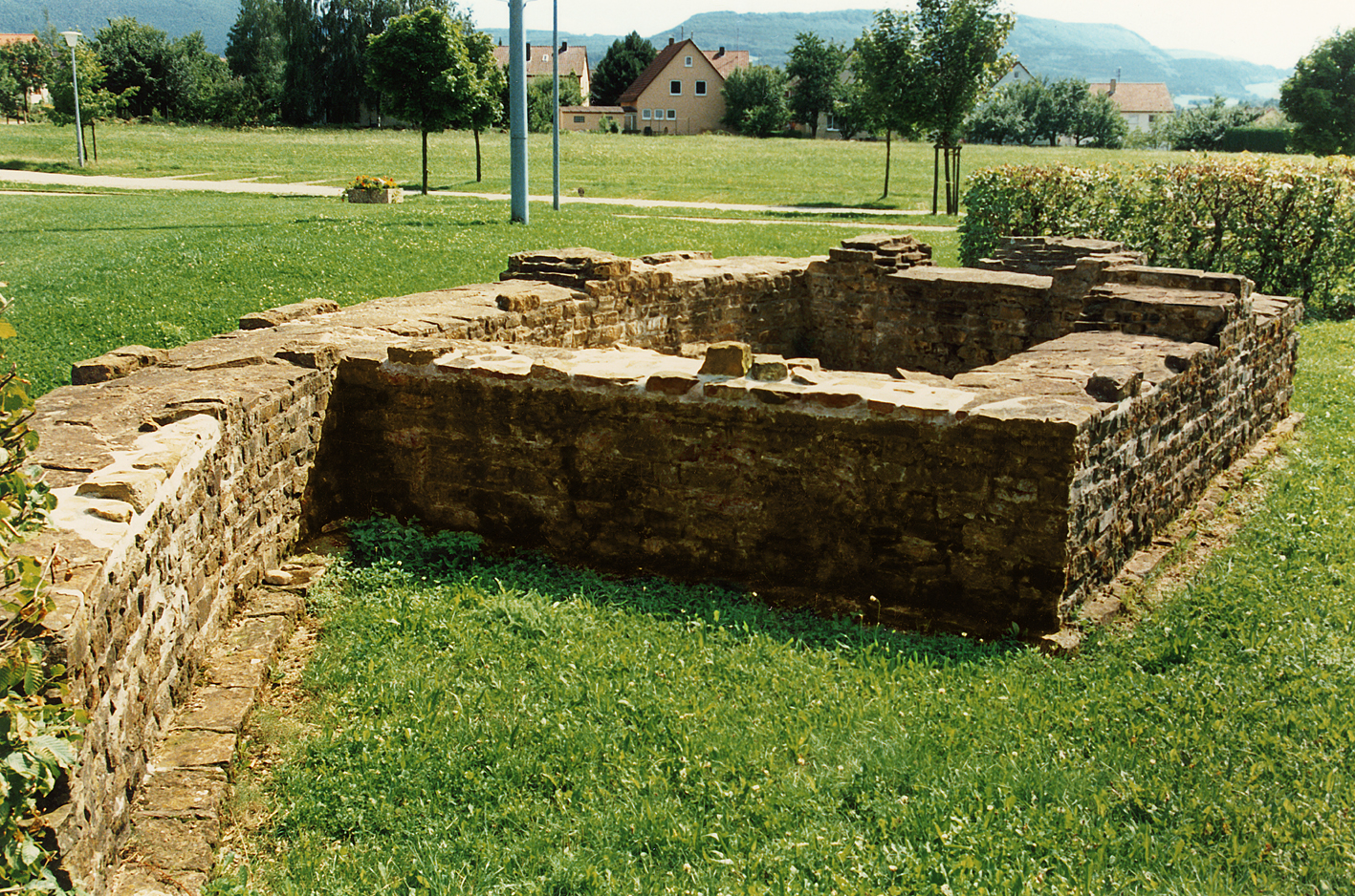 The Roman Fort Unterböbingen near the Raetian Limes, Baden-Wurttemberg, Germany. After 1973 restored corner tower of the Fort build about 150/160 A.D.